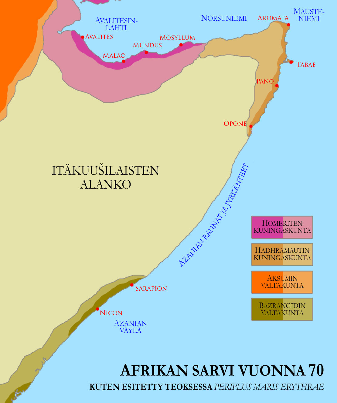 Horn of Africa c.70 C.E. according to the the Periplus of the Erythraean Sea